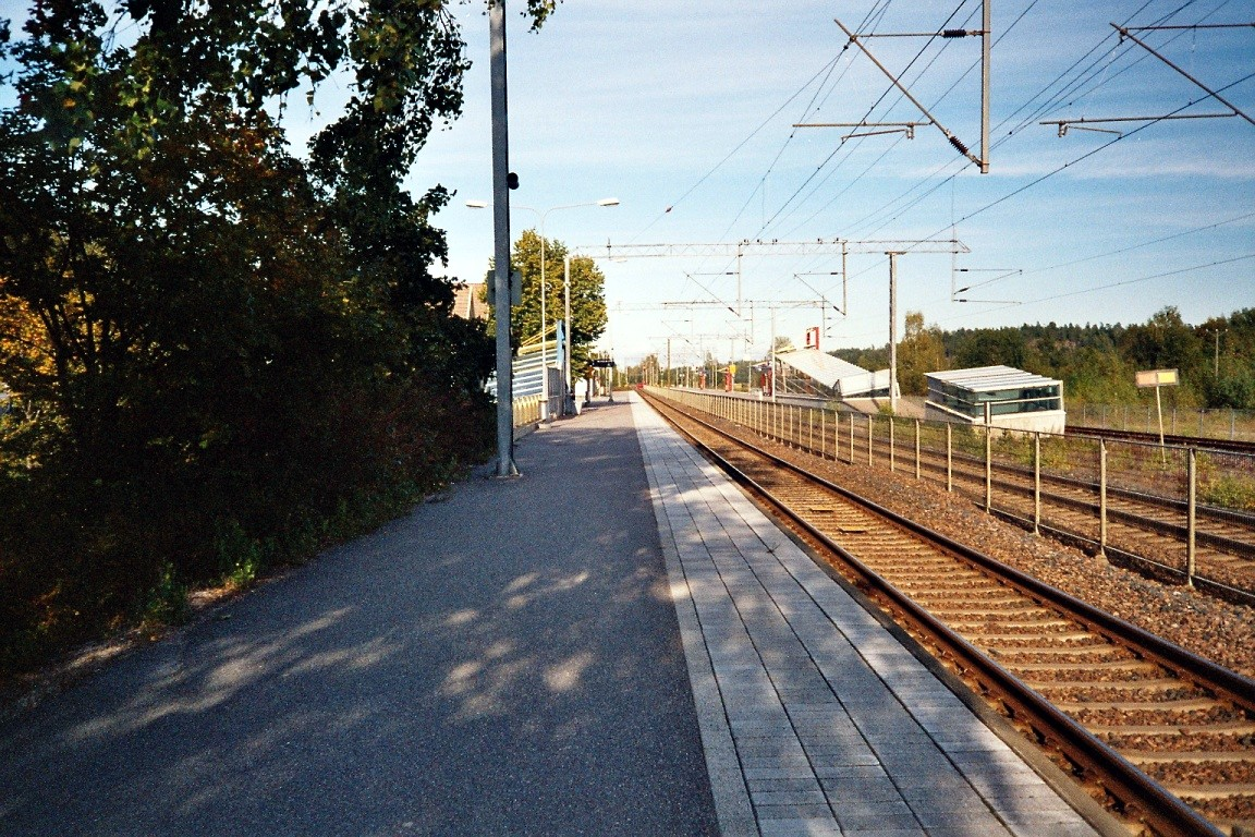 Kauklahti railway station, Espoo, Finland